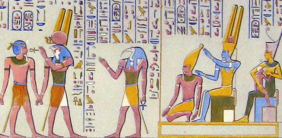 Bas-relief of Karnak